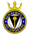 Crest of EML Wambola (A433)